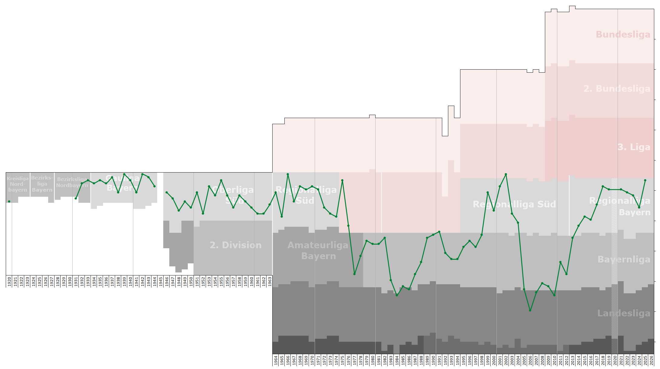 Chart of end-season table positions of FC Schweinfurt in the football league system of Germany. Data source: RSSSF, wikipedia, f-archiv.de, fussball.de